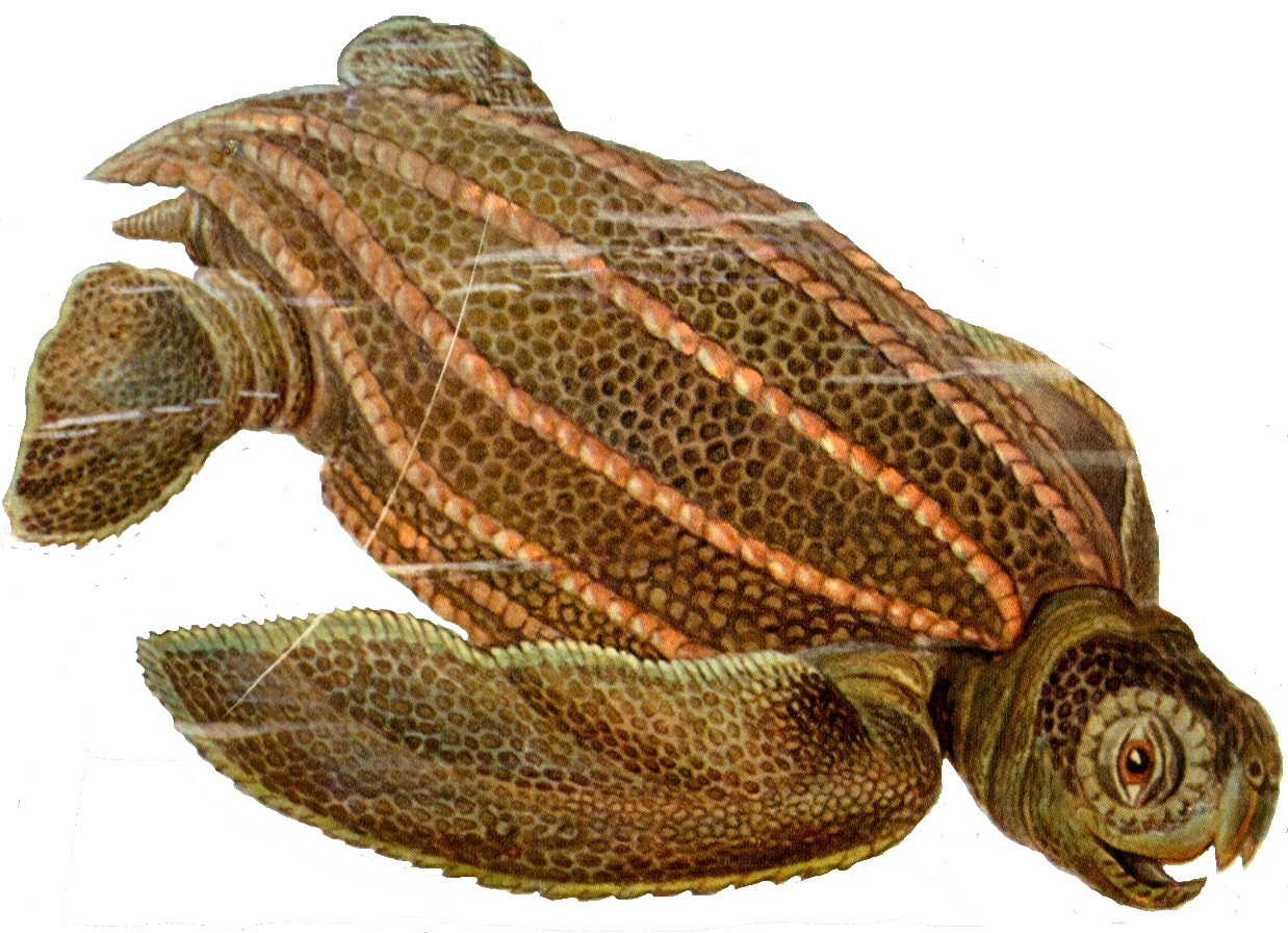 Leatherback Turtle by Haeckel